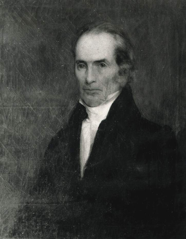 American politician Robert Weakley (1764–1845), congressman from Tennessee